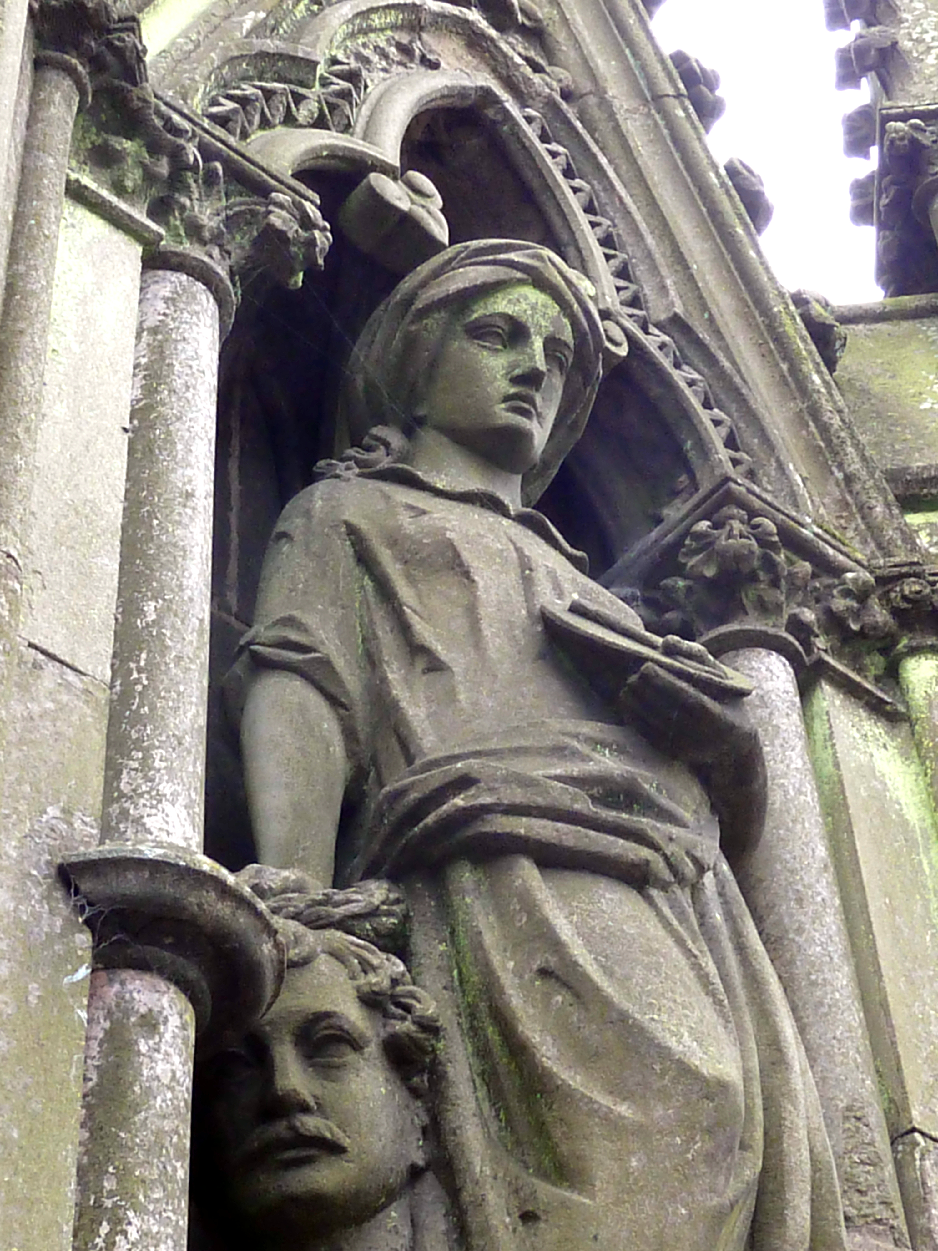 Albert Memorial fountain, Queensbury, West Yorkshire, England. Designed by Eli Milnes (1830-1899) of Bradford. Completed by May 1863. Stone carving by Mawer & Ingle.